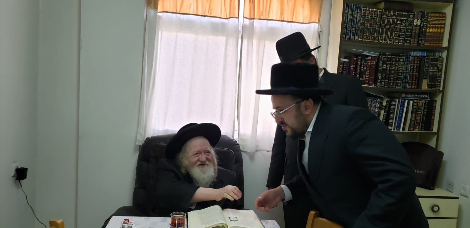 Lipa Schmeltzer at Kretchnif Rebbe Kiryat Gat Feb. 2019